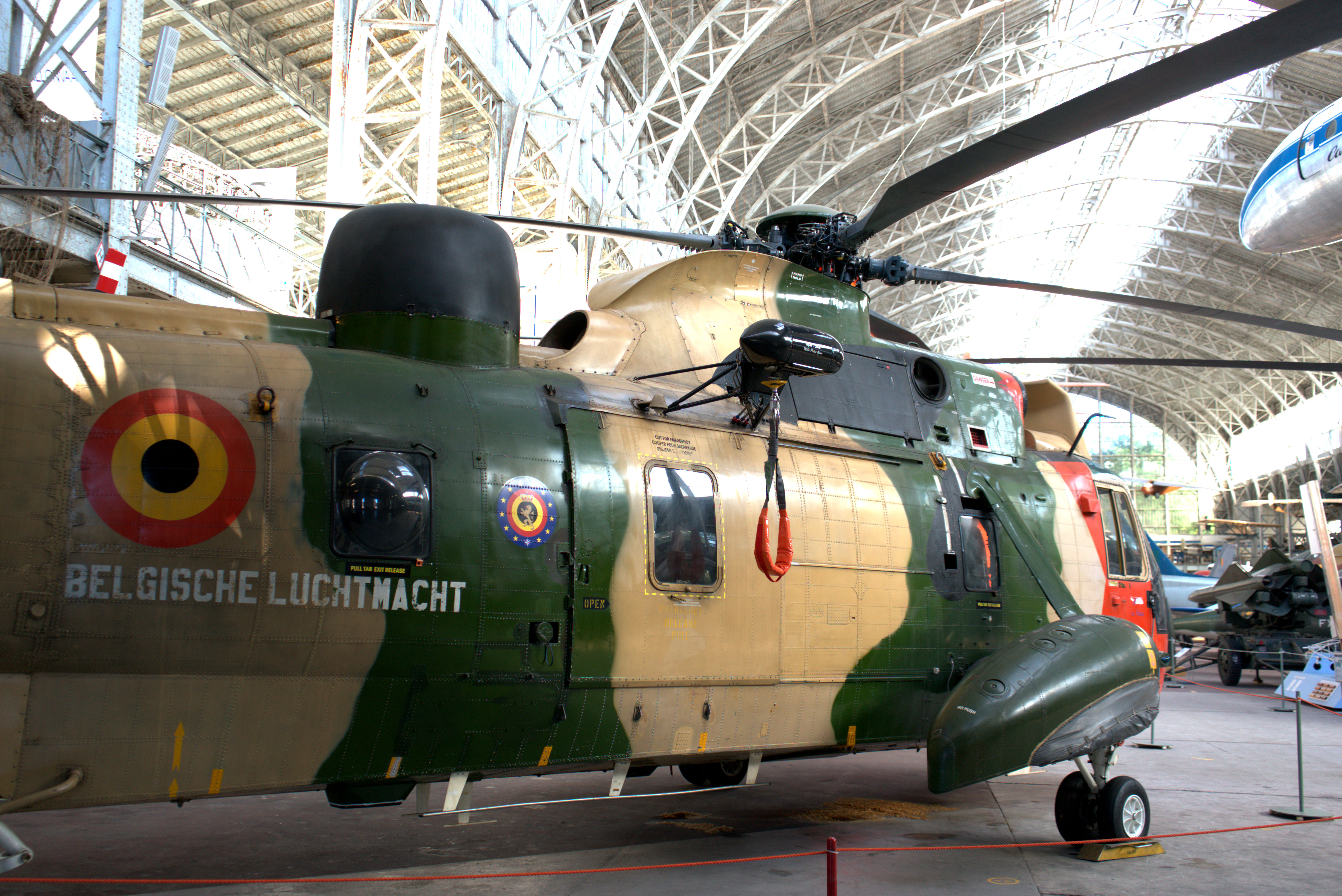 This is a file created at the museum: Royal Museum of the Armed Forces and of Military History in Brussels